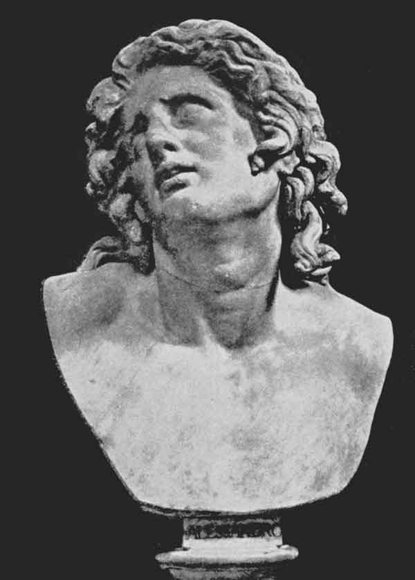 The so-called "Alessandro morente" ("Dyng Alexander")